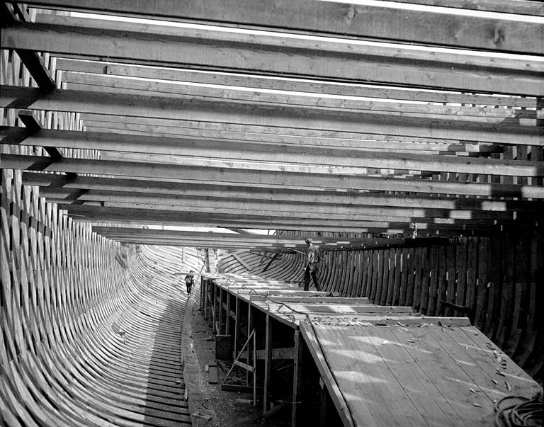 From John Cobb field notebook: Inside of vessel building at Pacific American Fisheries yard, Bellingham, Wash. Sept. 1916 View of interior of wooden ship hull under construction. Subjects (LCTGM): Boat & ship industry--Washington (State)--Bellingham Subjects (LCSH): Pacific American Fisheries; Shipbuilding--Washington (State)--Bellingham; Shipyards--Washington (State)--Bellingham